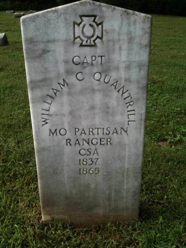 The grave site of William Quantrill in Higginsville, Missouri - located in the town's Confederate Cemetery.